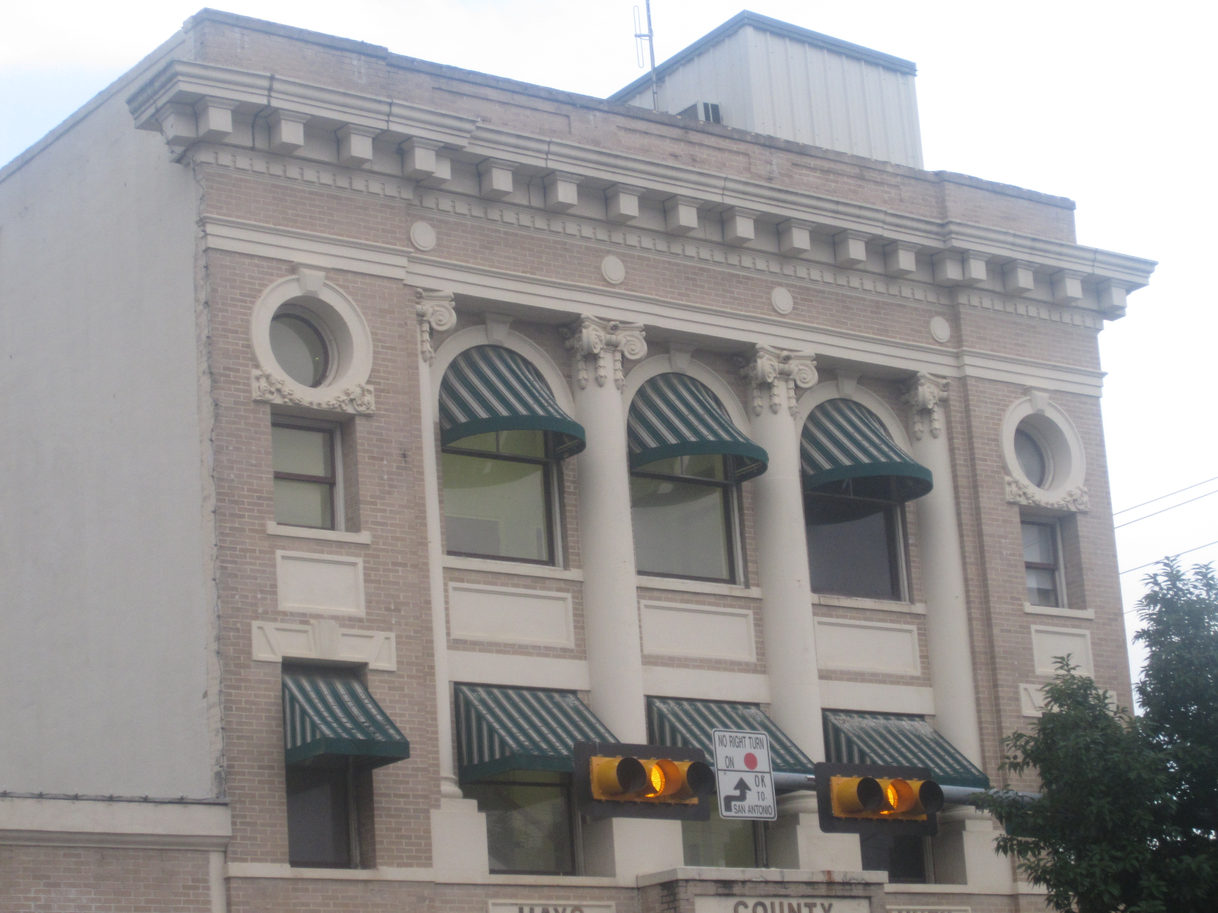 102 N. Lyndon B. Johnson Dr, San Marcos, Texas